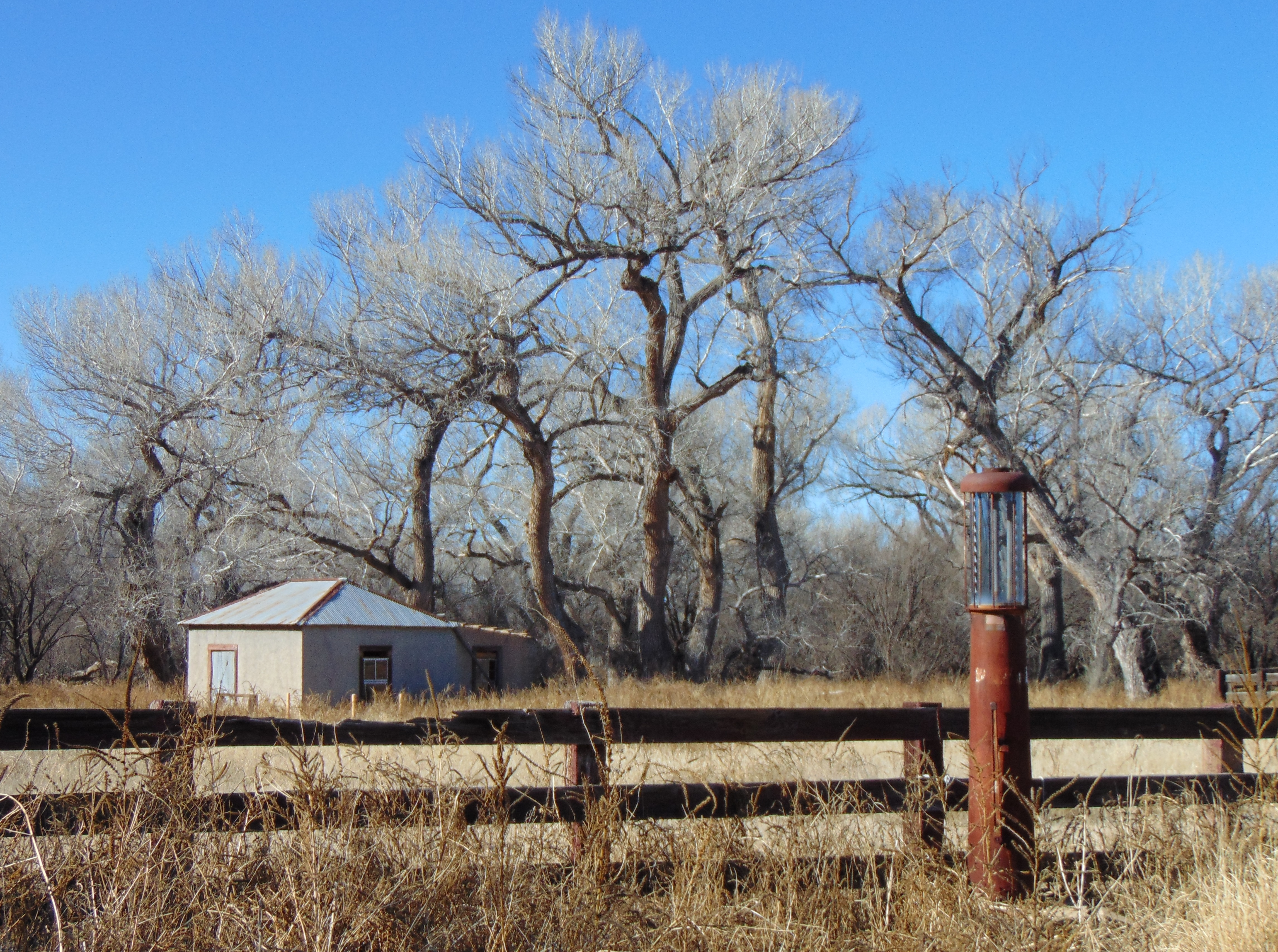 An old gas pump with the ruin of the blacksmith's shop and riparian trees in the background at the Little Boquillas Ranch in Cochise County, Arizona.